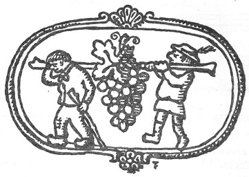 1916 novel by Belgian author Felix Timmermans